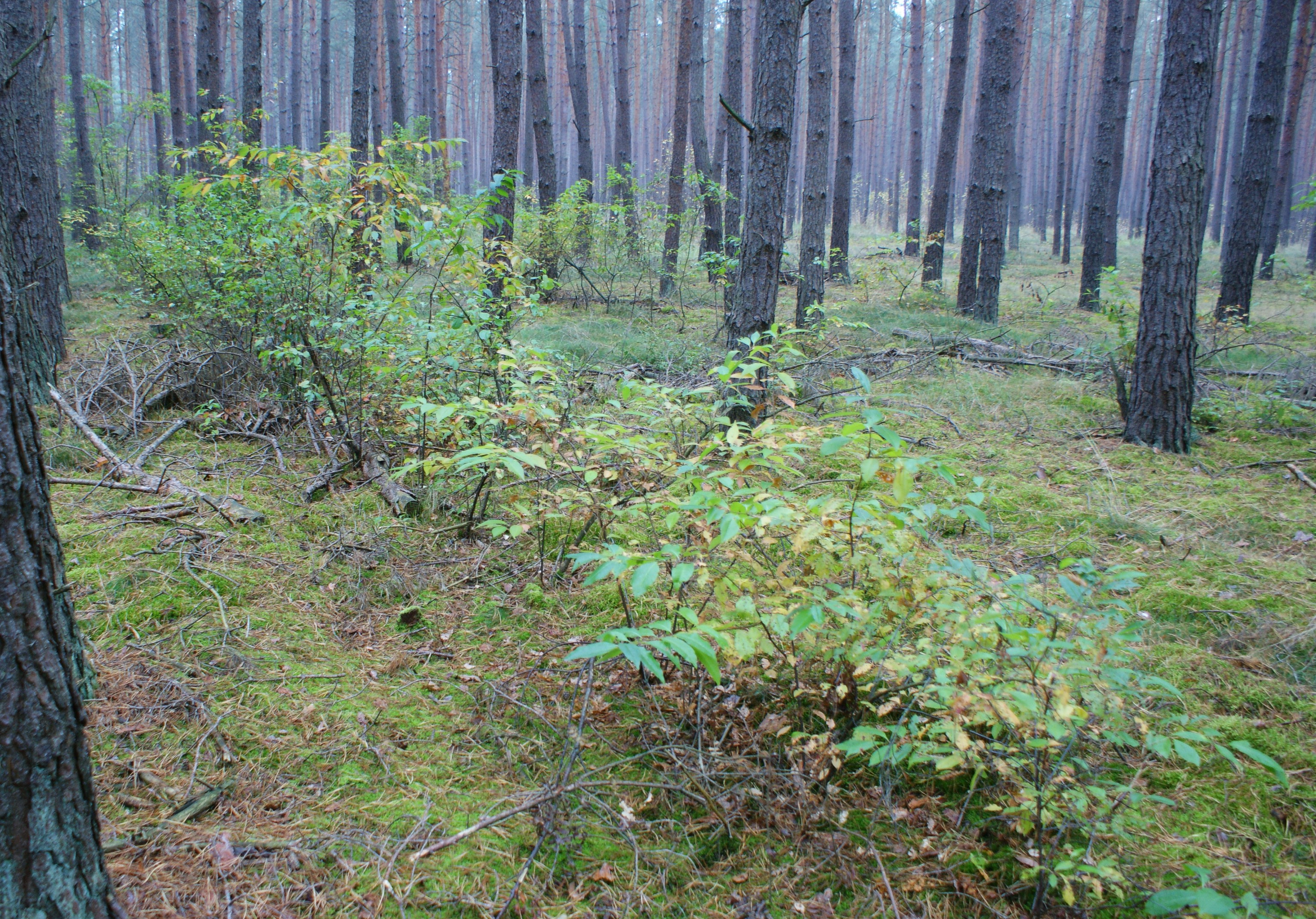 Prunus serotina planted in pine forest near Trzciel (W Poland)